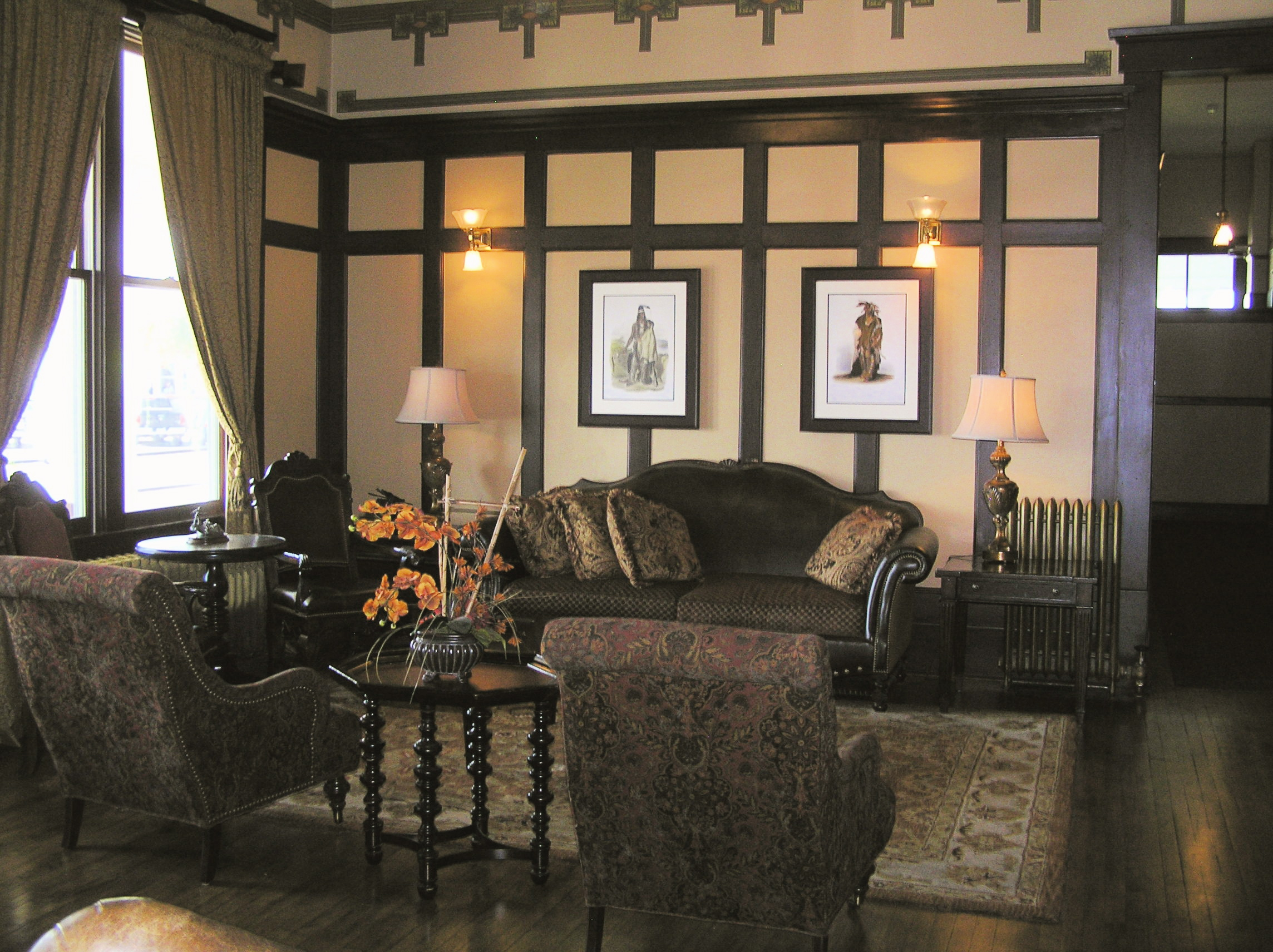 Image of Lobby of Sacajawea Hotel, Three Forks, Montana